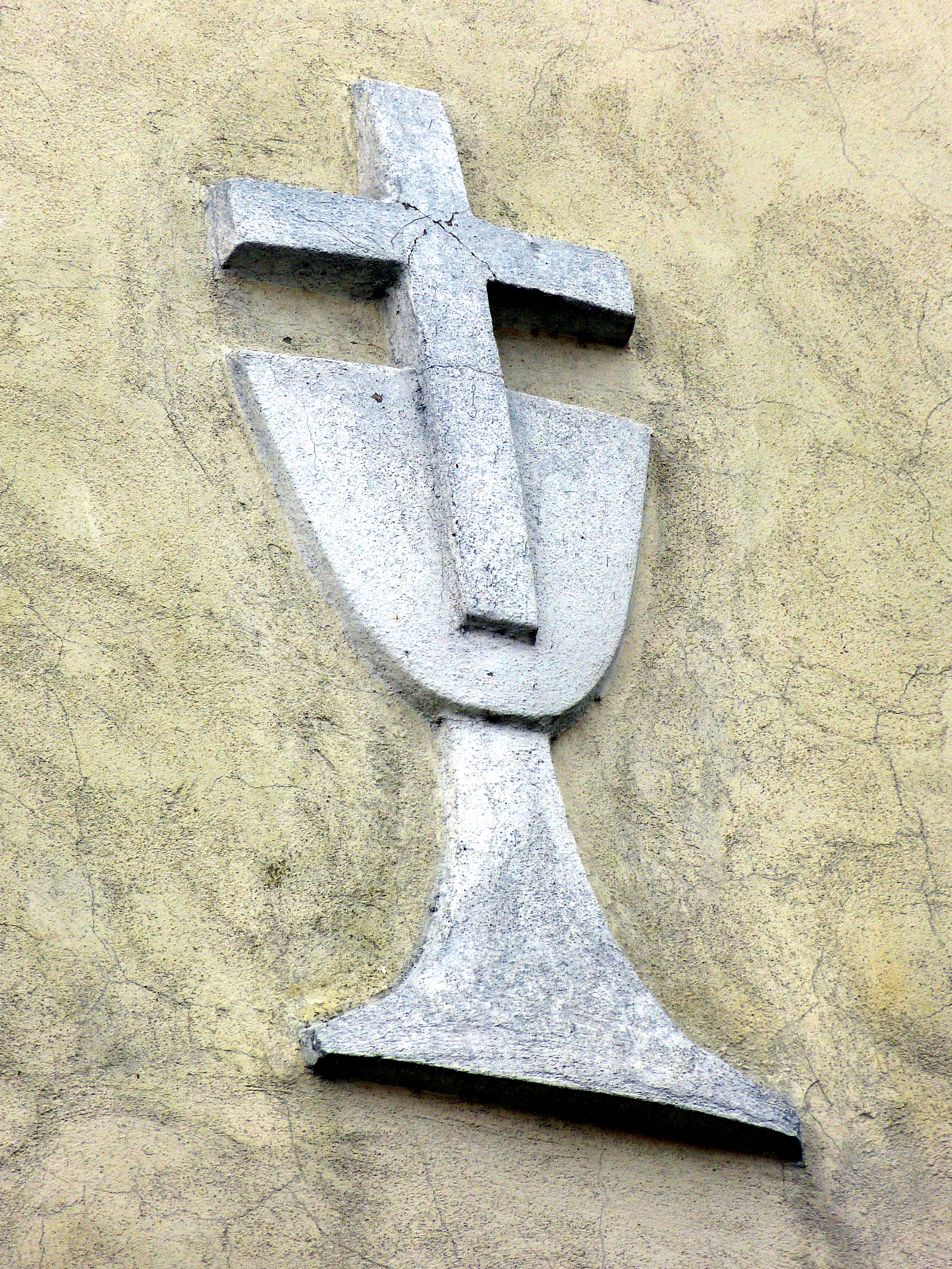 Třešť ( Moravia/ Czech Republic ). Synagogue - Symbol of the Czechoslovak Hussite Church.